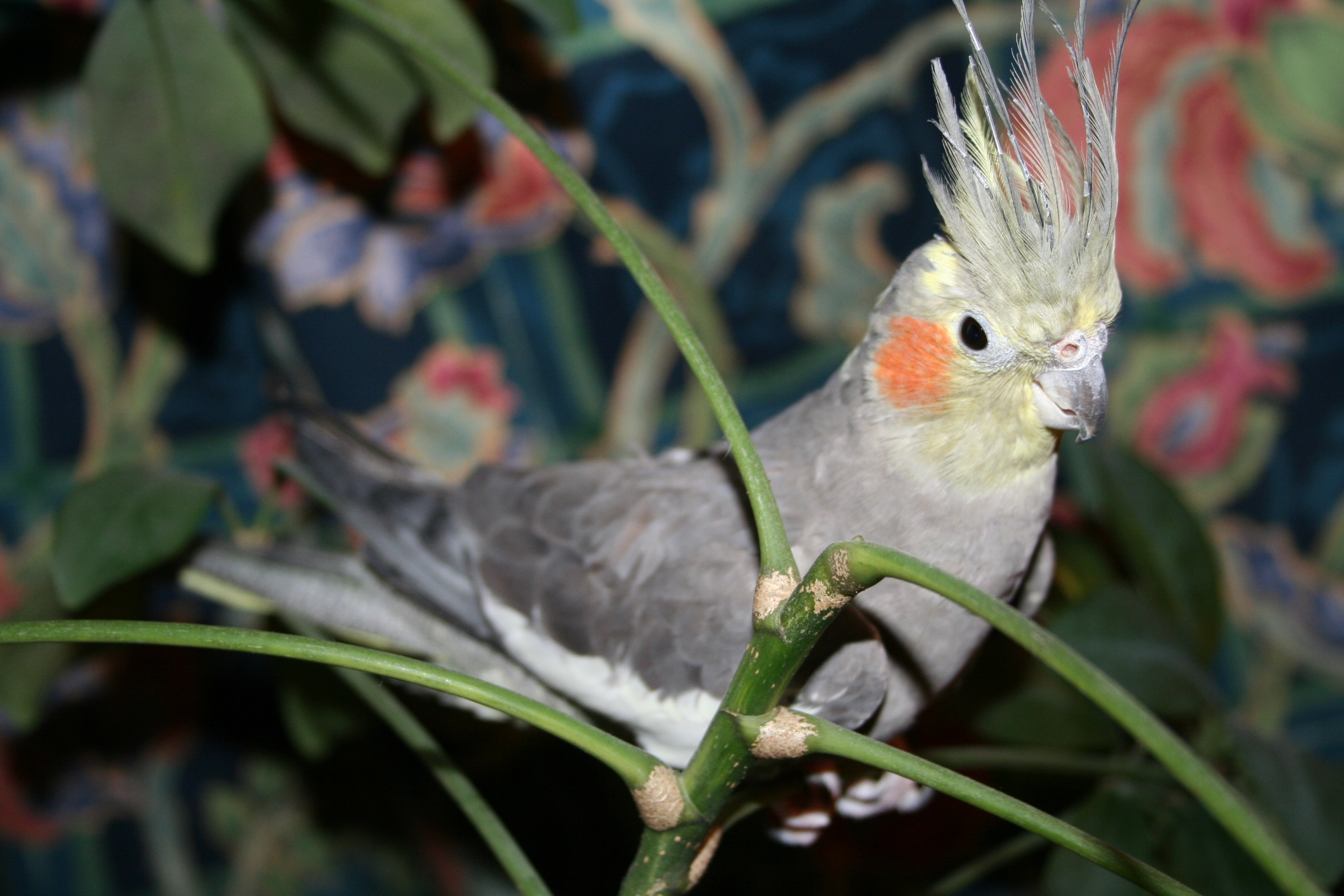 Nick Brooke, self made